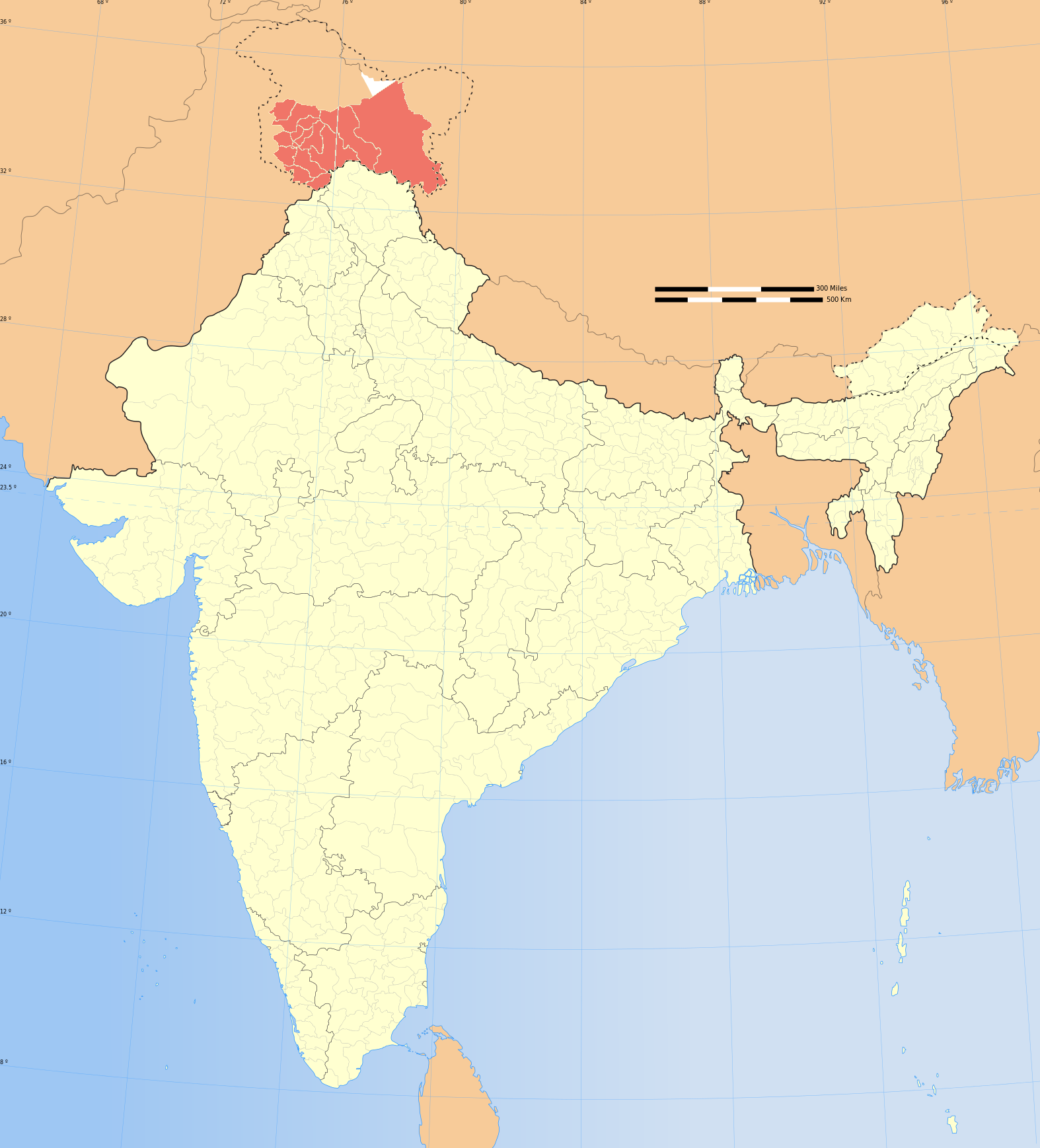 This map locates the Indian Jammu and Kashmir